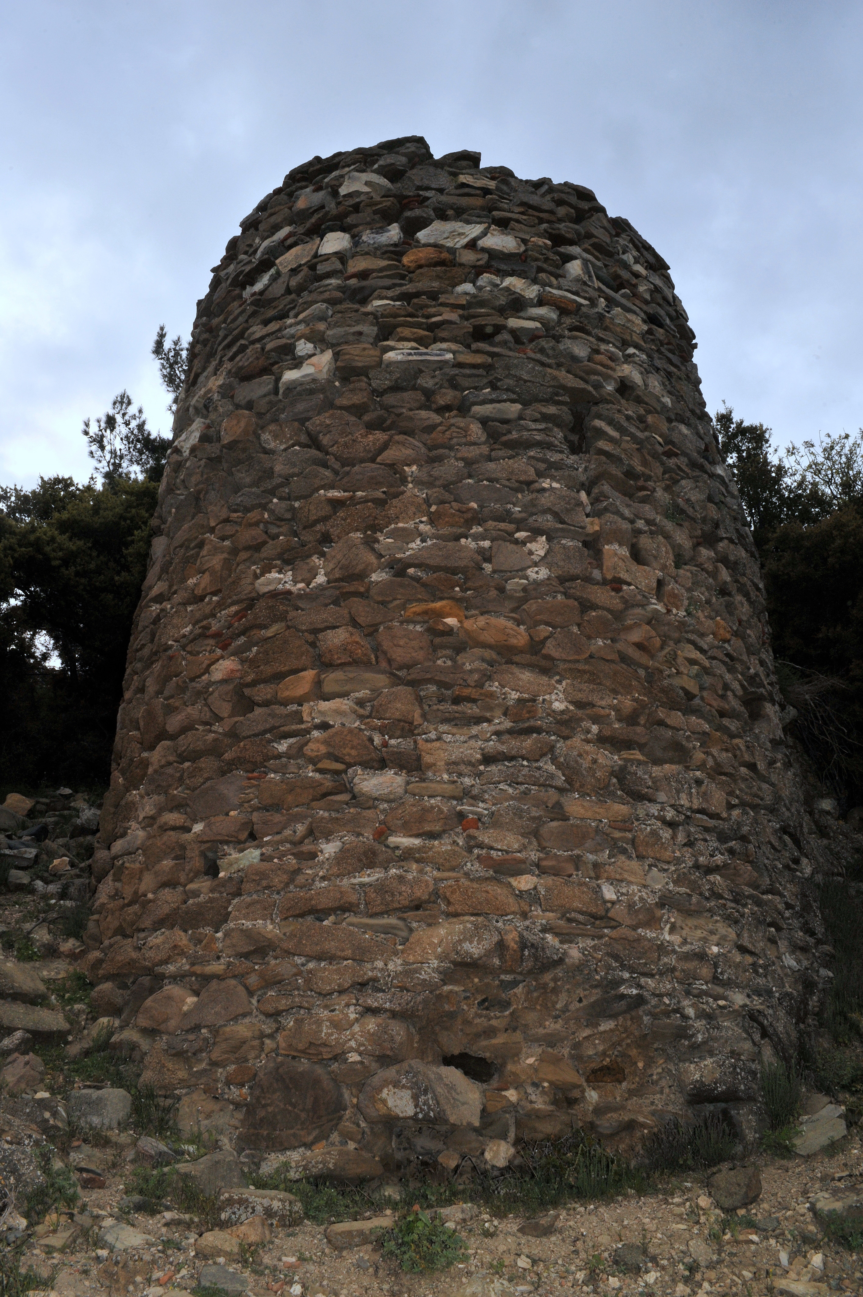 Fortress Gratini - Zoodoxou Pigis Orthodox church, Rhodope, Thrace, Greece.